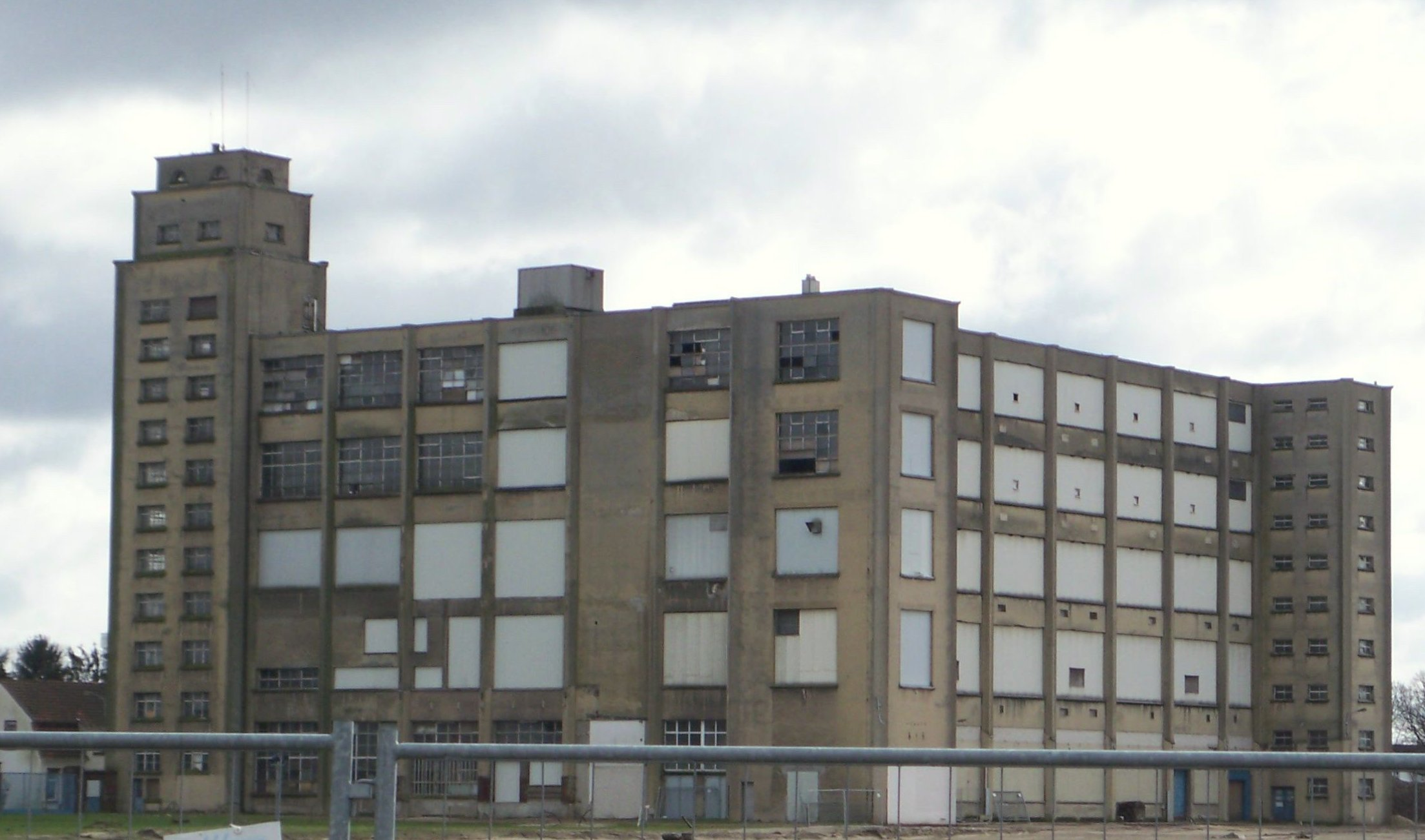 NINO Spinnereihochbau